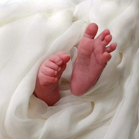 Photograph by Doreen Dotto ©2006, Doreen Dotto Fine Portrait Photography, Toronto, Ontario, Canada.